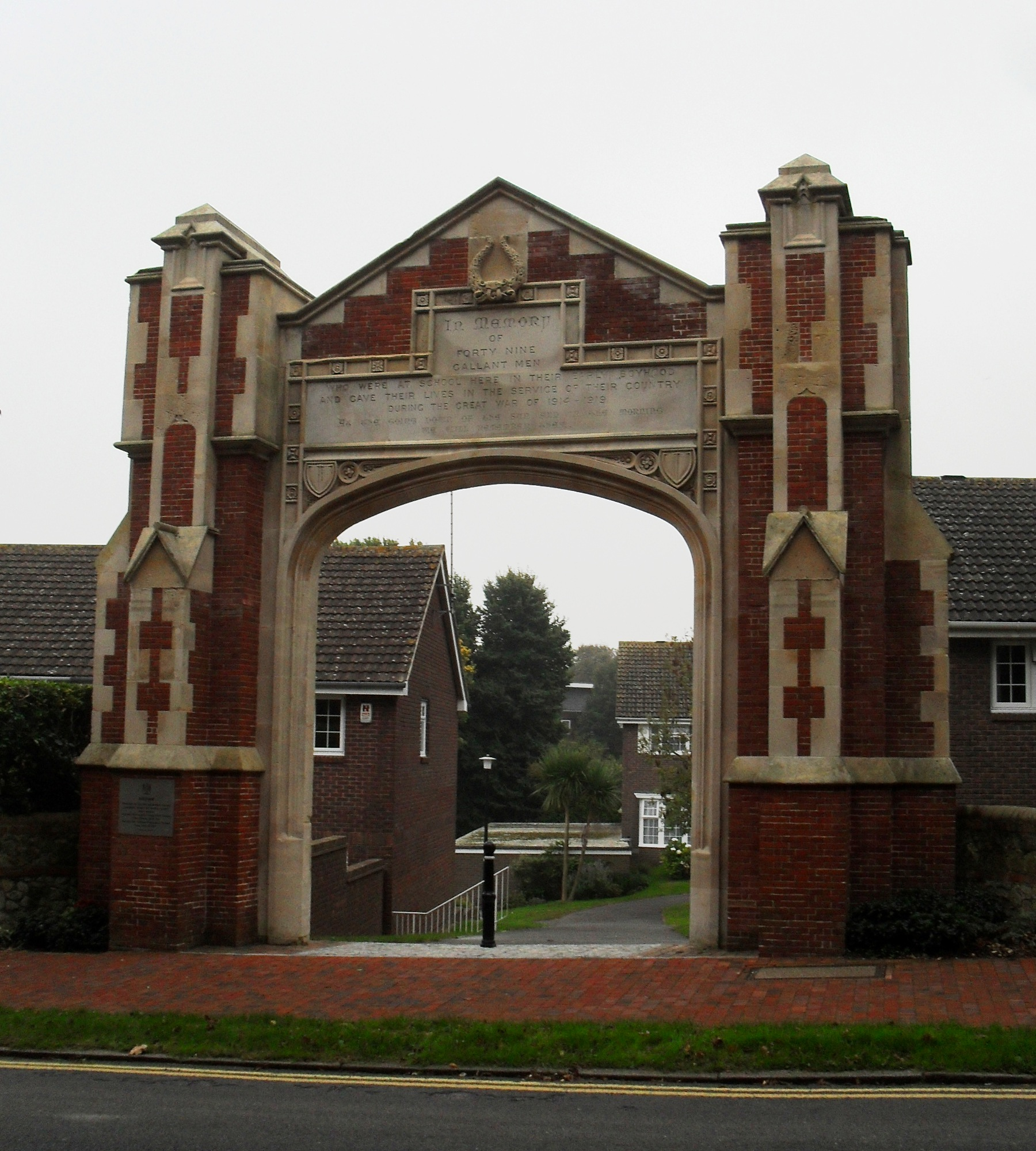 Ascham St Vincent War Memorial Arch, Carlisle Road, Eastbourne, East Sussex, England. Listed at Grade II by English Heritage (NHLE Code 1389575)